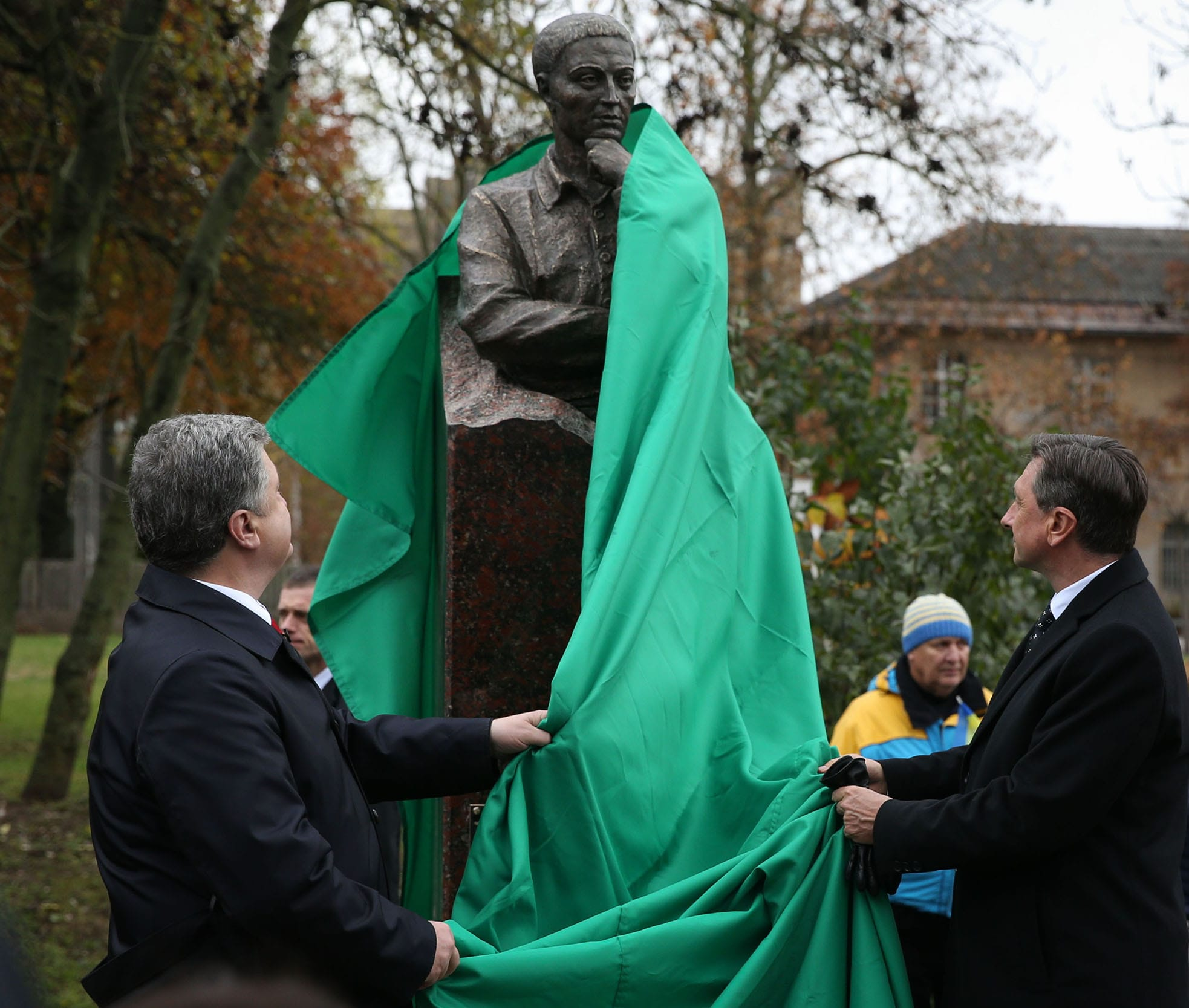 Hryhoriy Skovoroda monument in Ljubliana